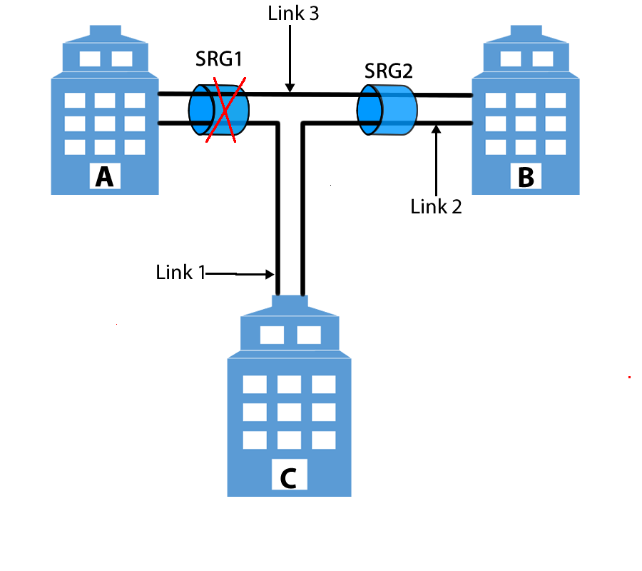 Figure showing a failure in an SRLG being shared between two offices.png